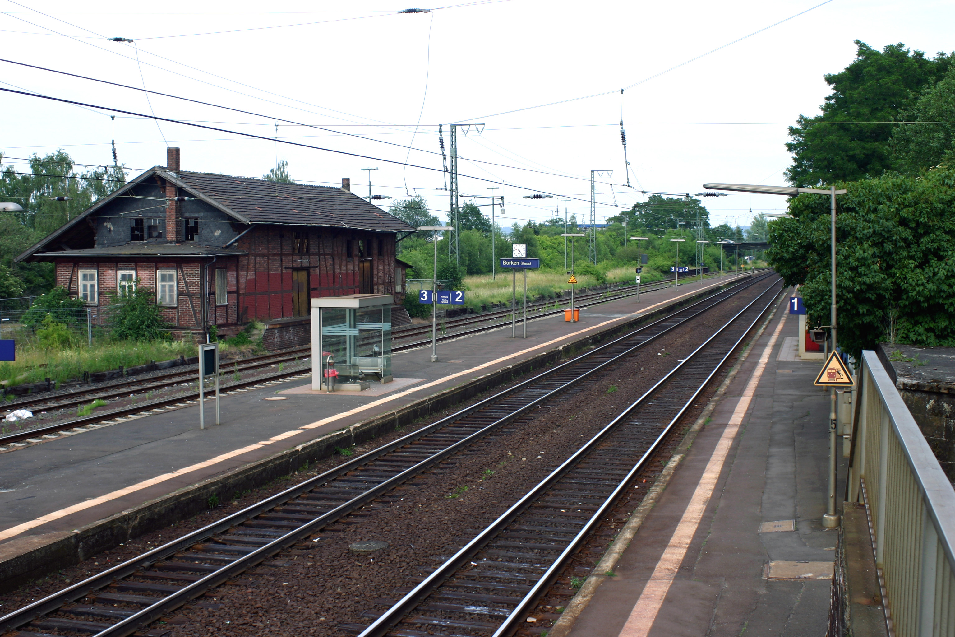 Borken (Hesse) Railway station